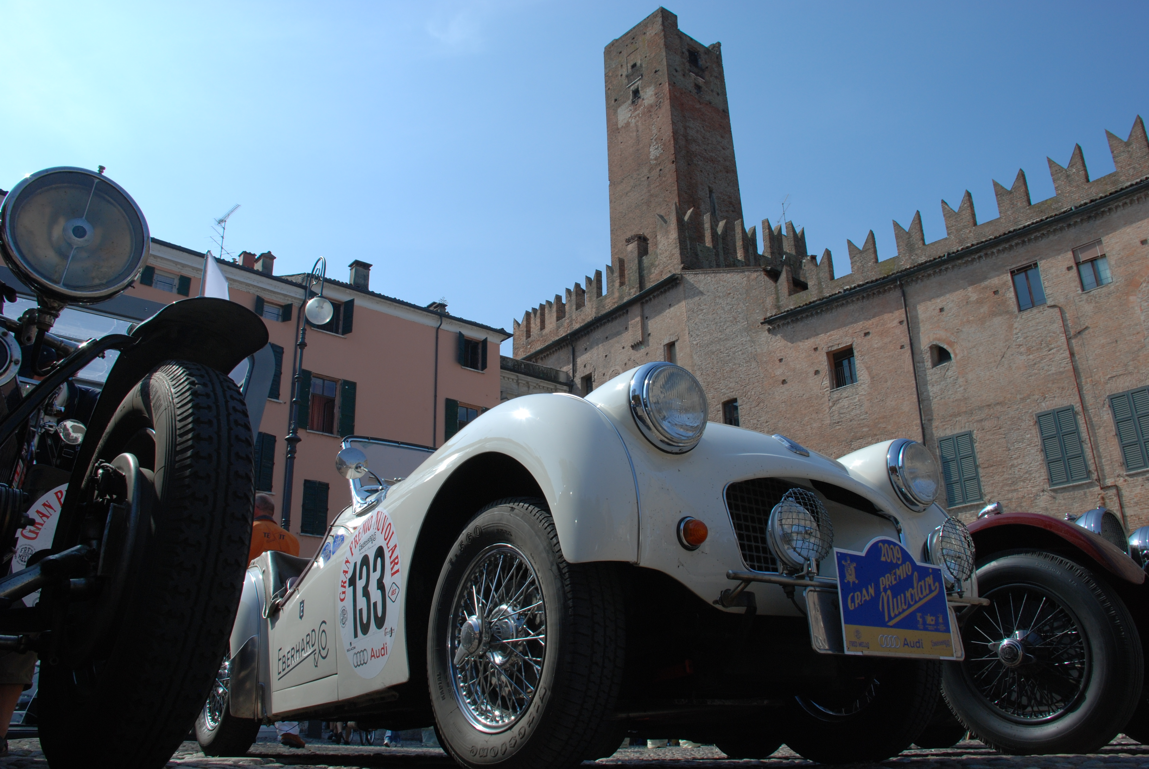 Triumph TR2 Gran Premio Nuvolari in Mantova